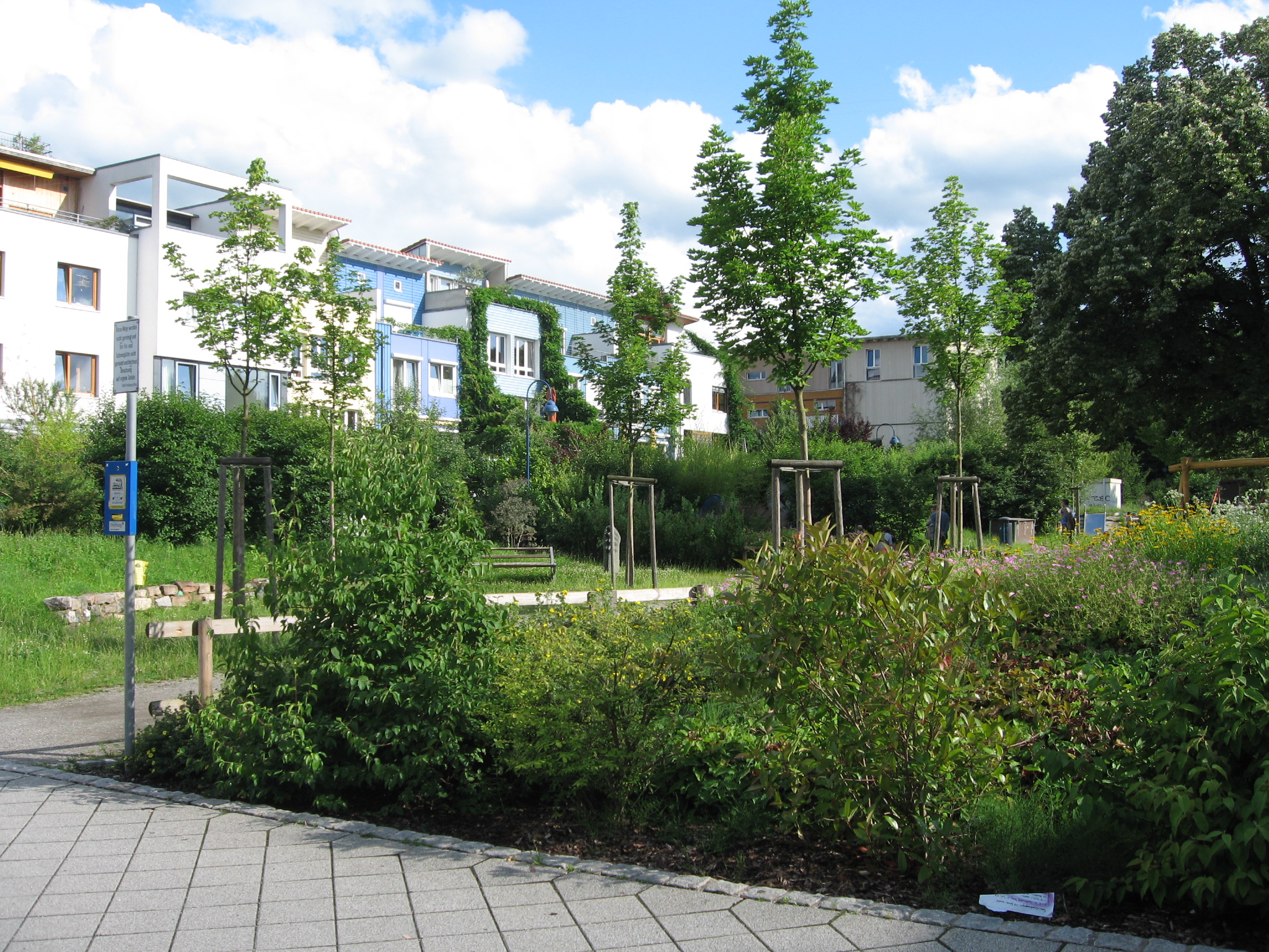 Vauban Quarter of Freiburg, Germany, Vaubanallee